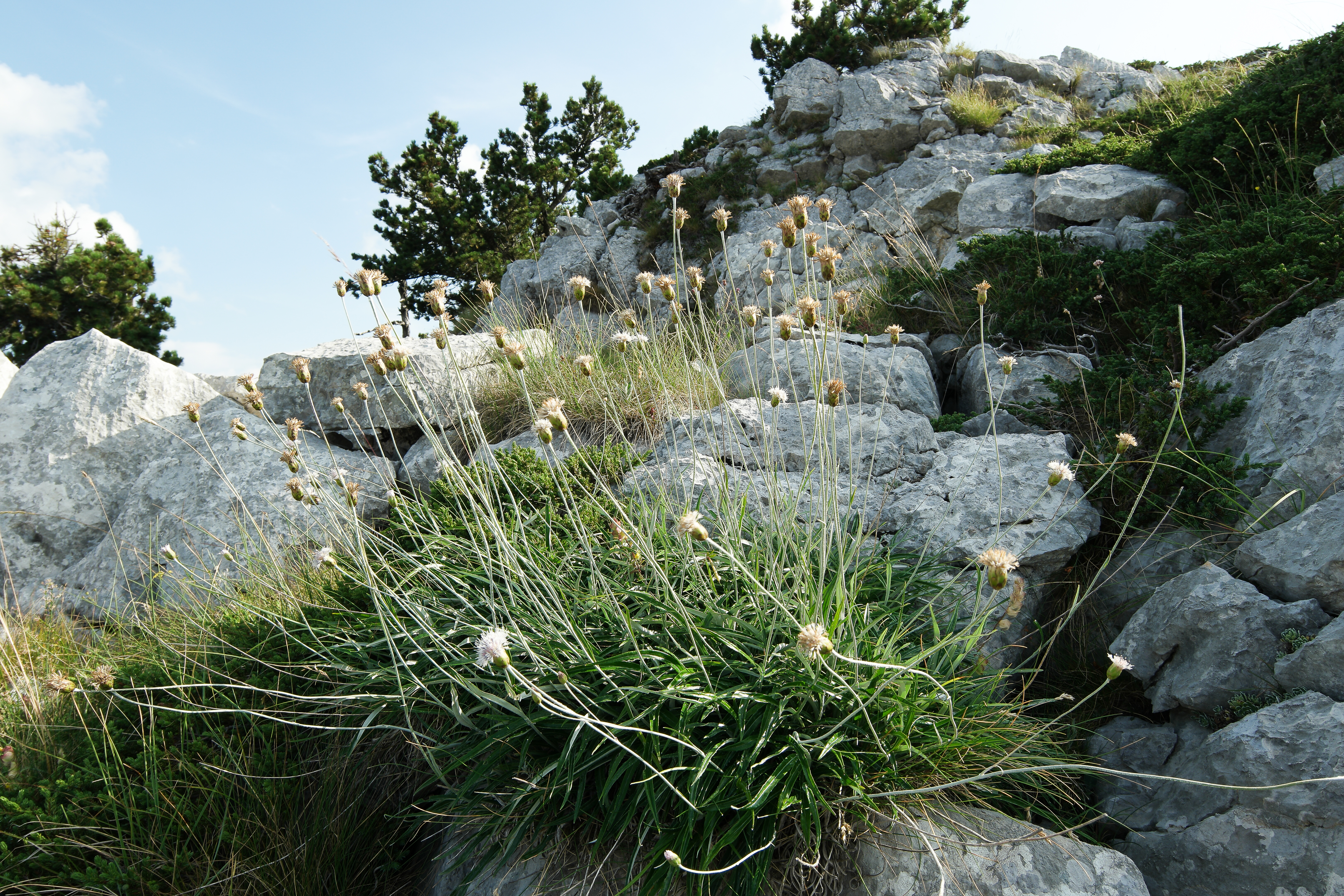 Amphoricarpos neumayeri Orjen in Montenegro. Opaljika North of Velika Jastrebica